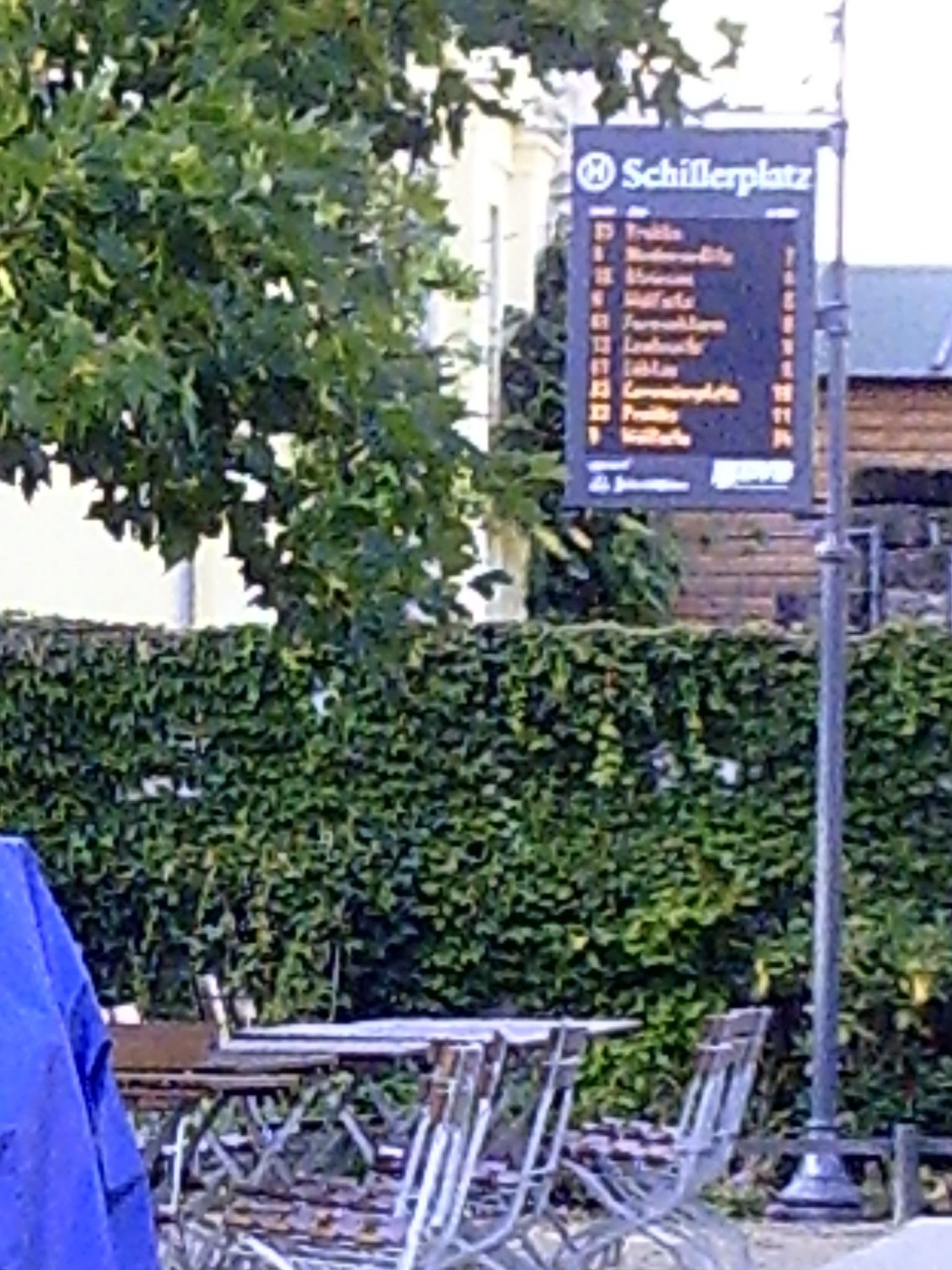 first DFI board (electronic timetable) in a german beer garden (restaurant Schillergarten, Dresden, Saxony)